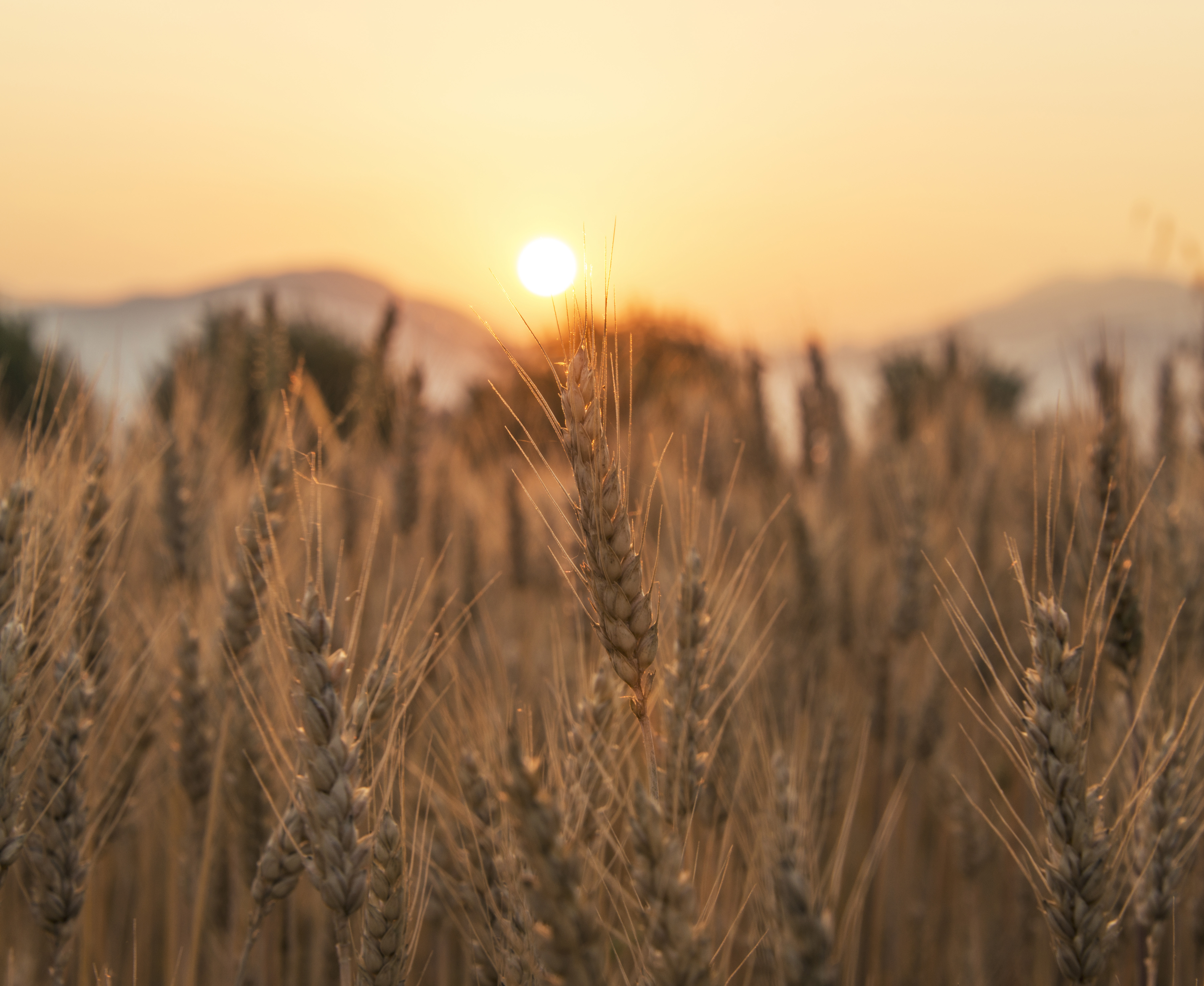 Sunset over the wheat field featured.